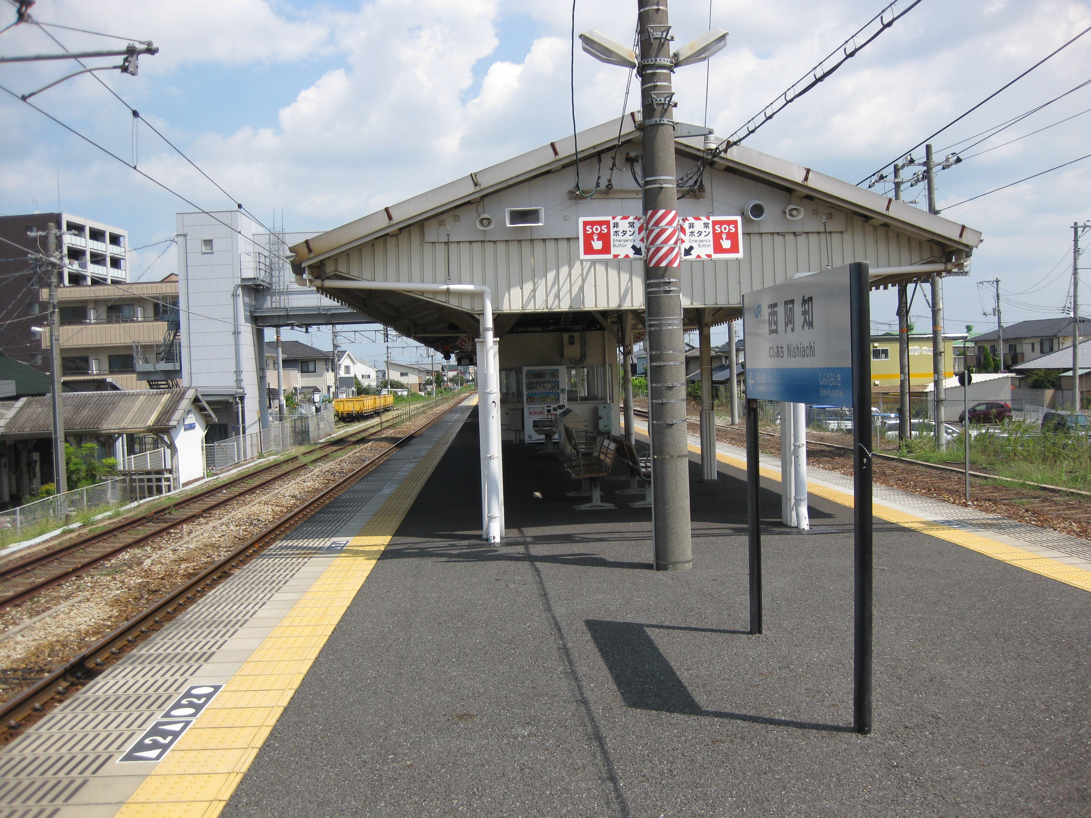 Nishiachi Station in Okayama Prefecture, Japan